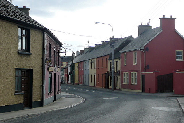 Main street in Clarecastle, near to Clare, Ireland. Until recently this was the N18 road from Limerick to Galway. I am sure the residents of these colourful houses are now pleased that the village has been by passed. Nevertheless, the traffic is still quite heavy as a route into Ennis and I had to wait a while to get this picture without vehicles.